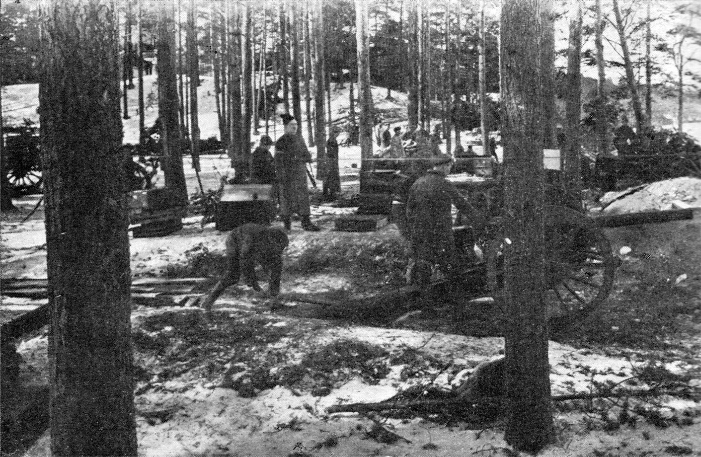 Battery No 1 of the 1st Artillery Regiment in position in Narva-Jõesuu in February, 1919.